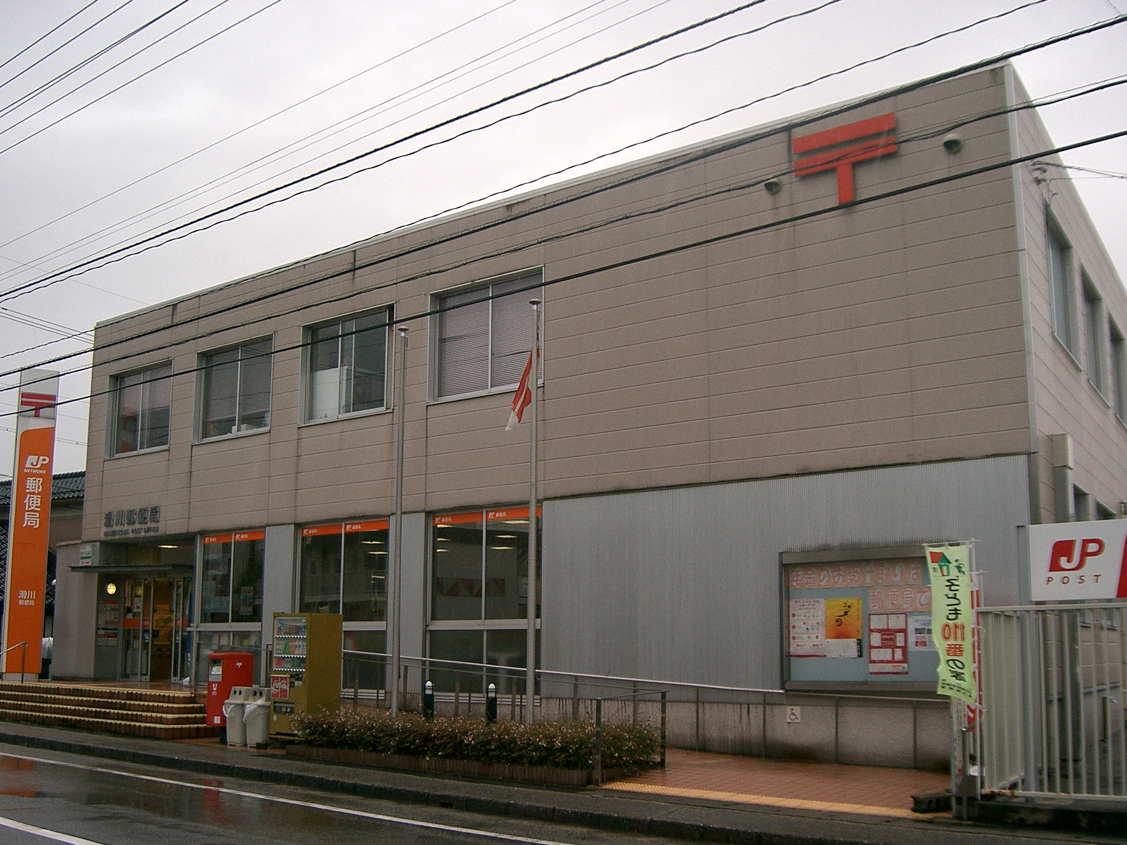 Namerikawa Post Office